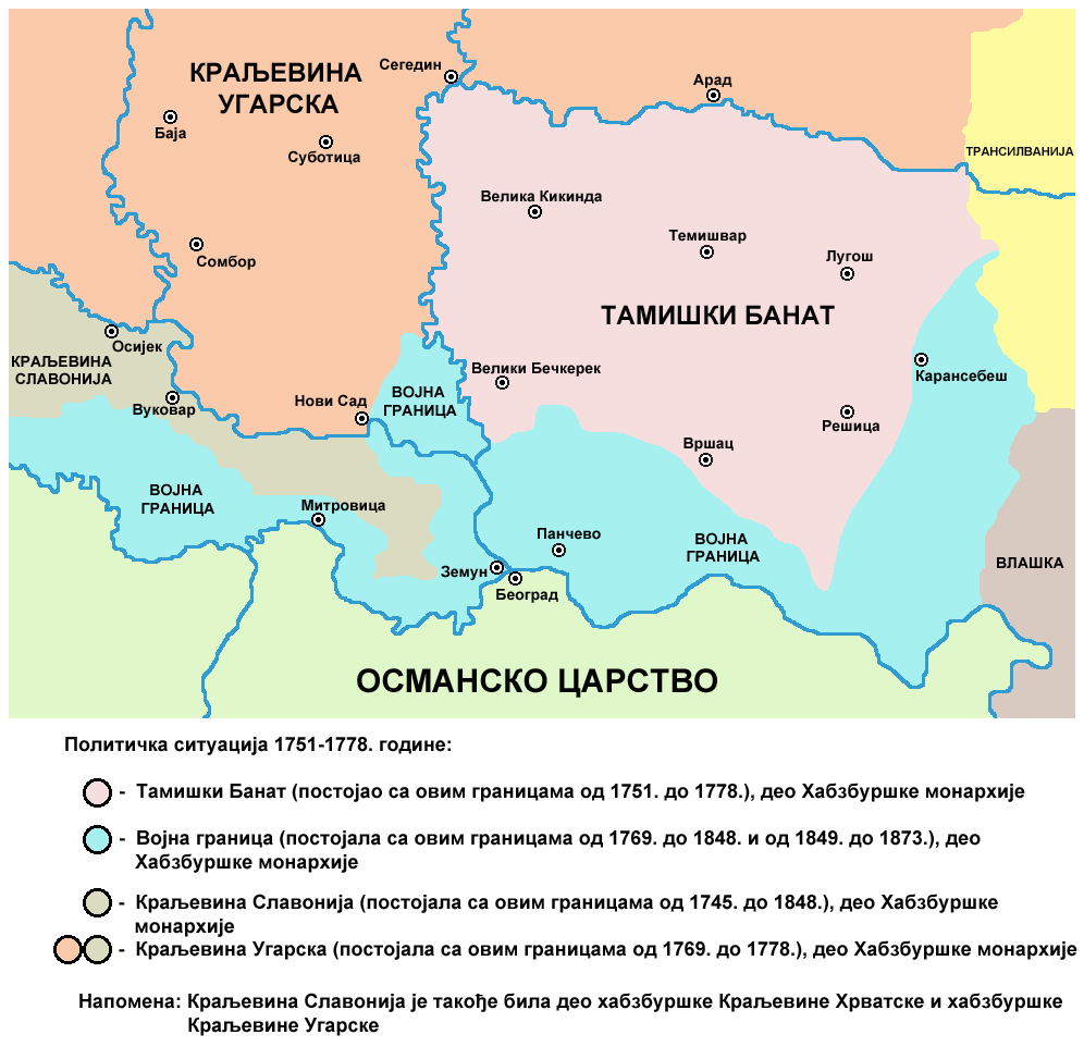 Map of the Banat of Temeswar, Kingdom of Slavonia and Military Frontier in 1751-1778.